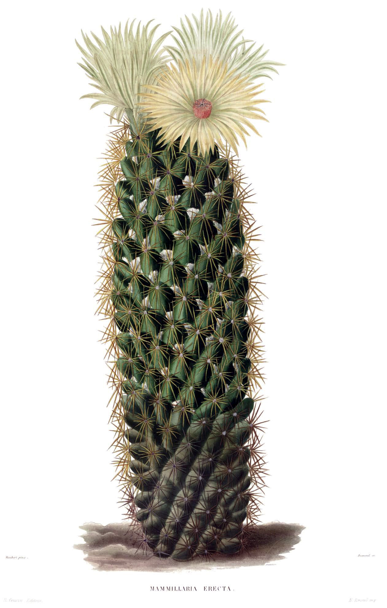 Plate from book